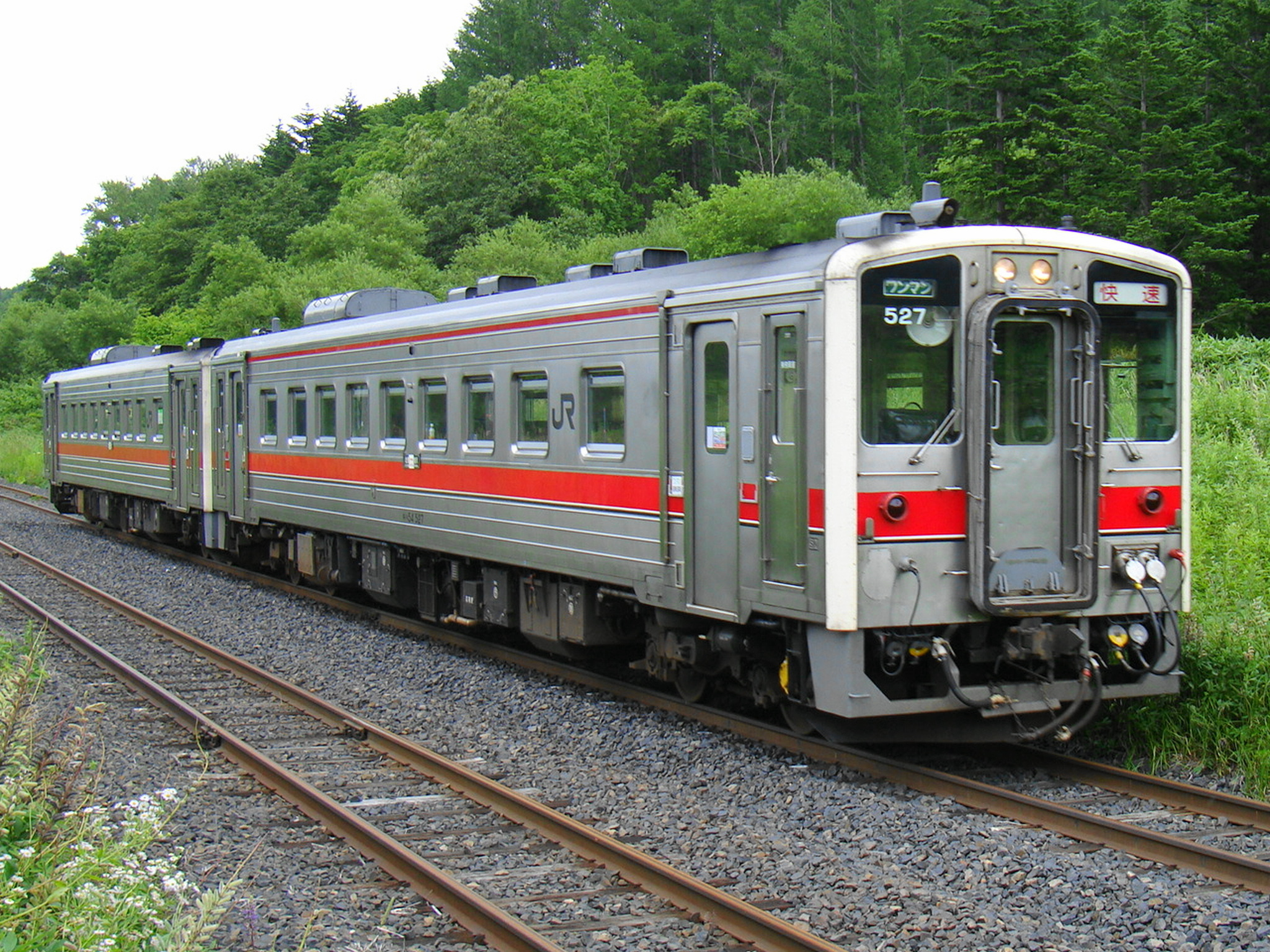 Kiha 54 527, 501 "Kitami" Limited Rapid train